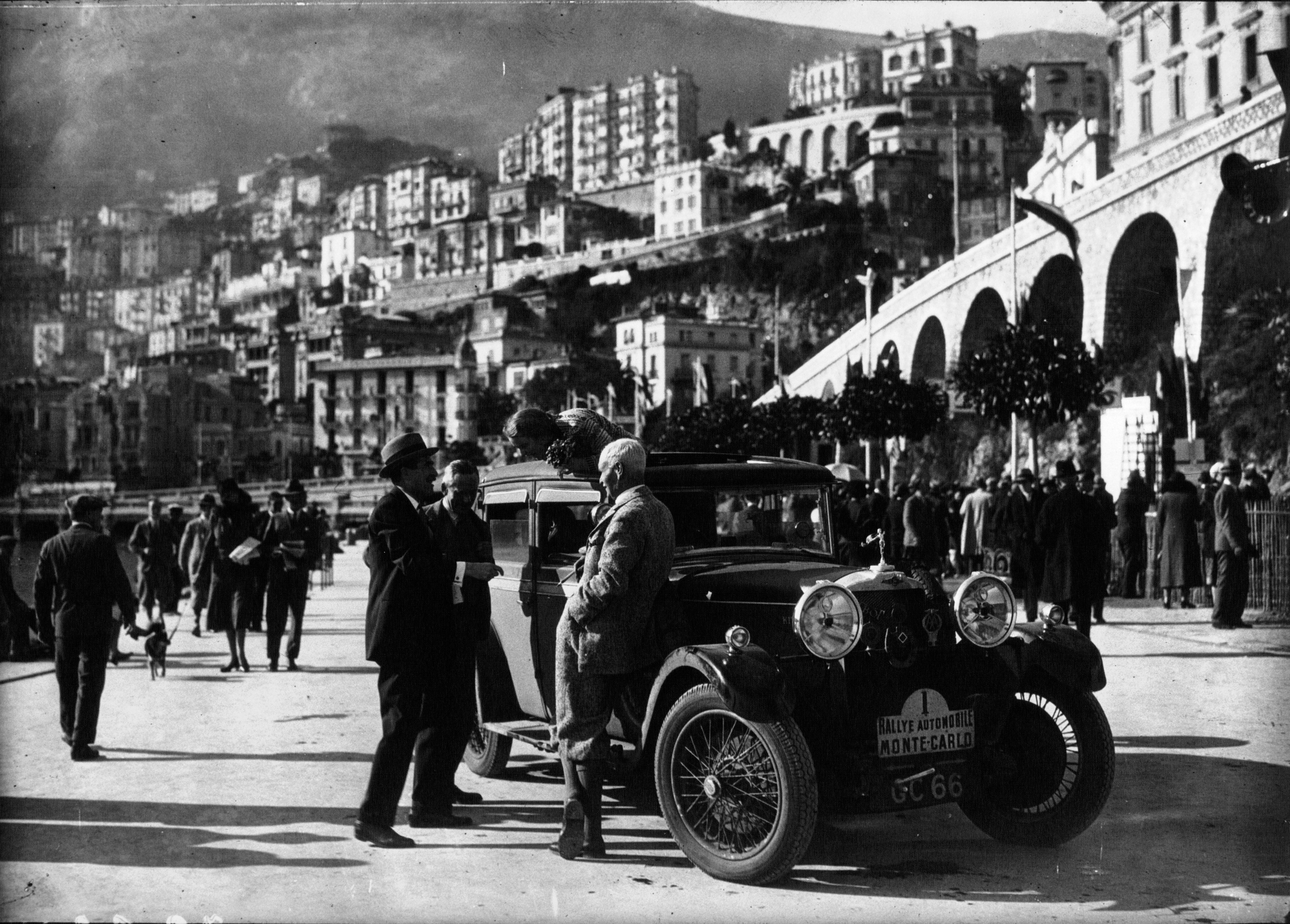 Entry #1 in the 1930 Rallye Monte Carlo was a Talbot 14/45 license "GC 66" driven by 17-year old british Kitty Brunell who ended in 41st place.[1] She entered the very same car the previous year as well.[2]